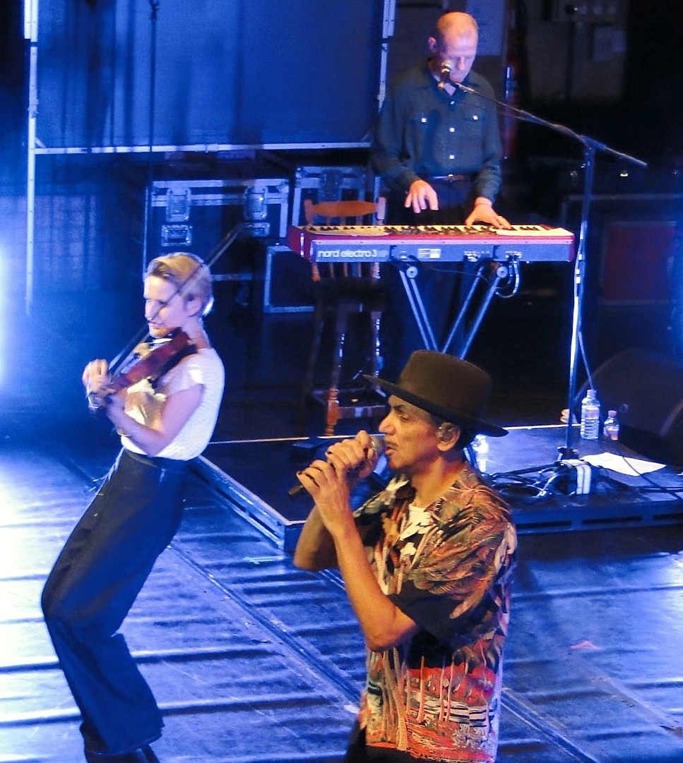 Dexy's lead singer Kevin Rowland (with violinist Lucy Morgan and Mick Talbot)